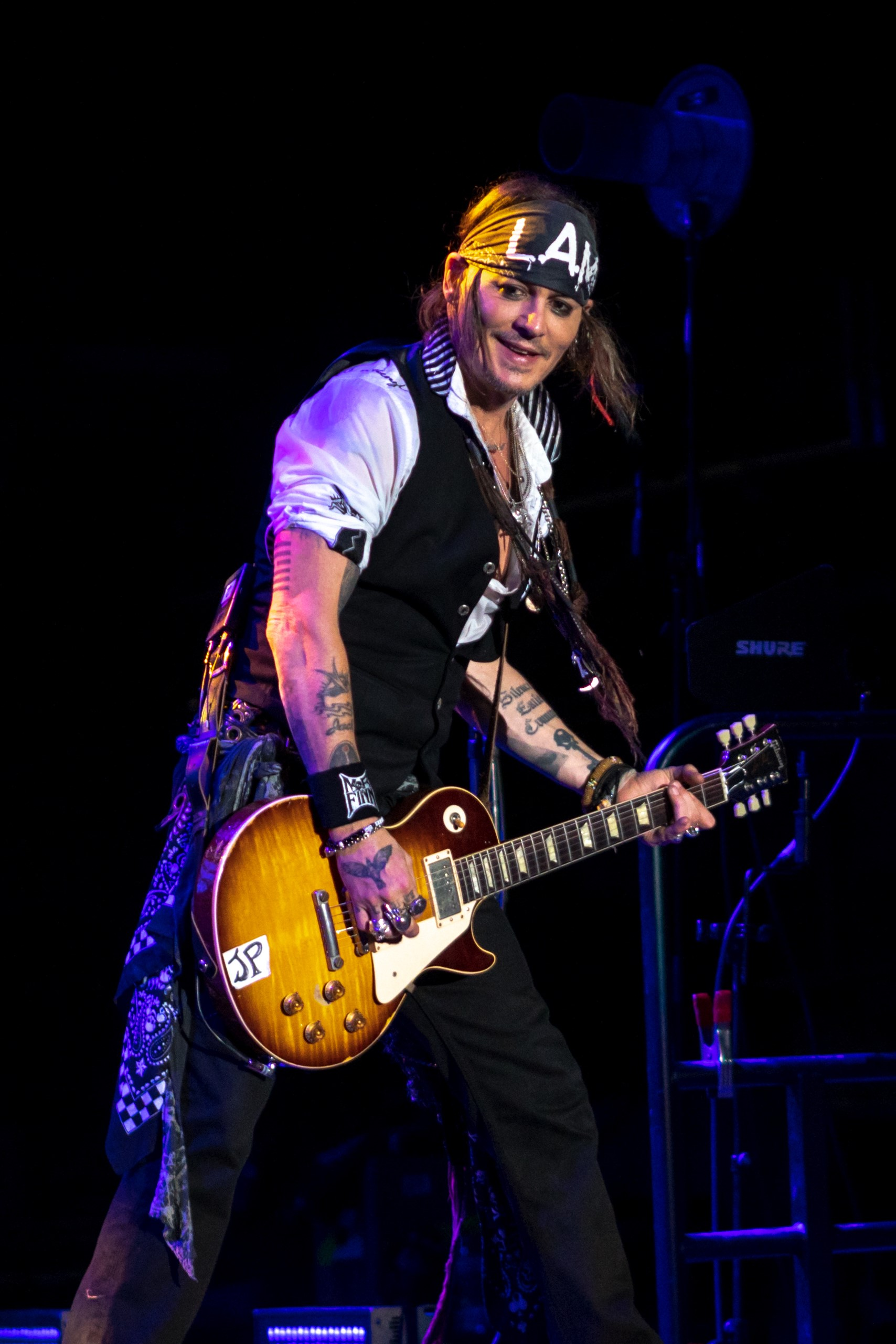 HollywoodVampsSSe200618-119